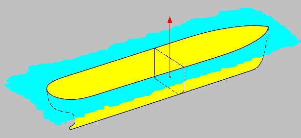 center of bouoyancy